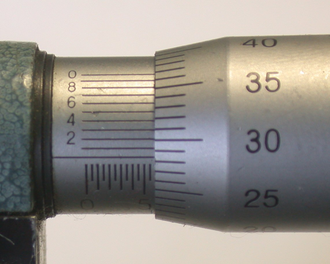 Micrometer